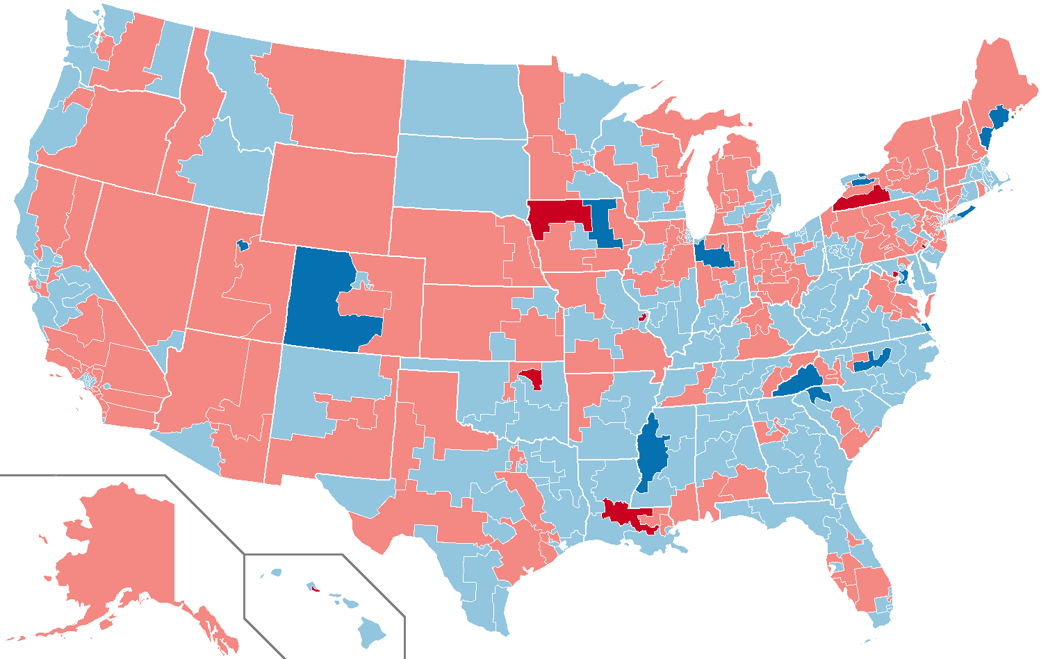 This map shows the results of the 1986 House Elections in the Untied States.